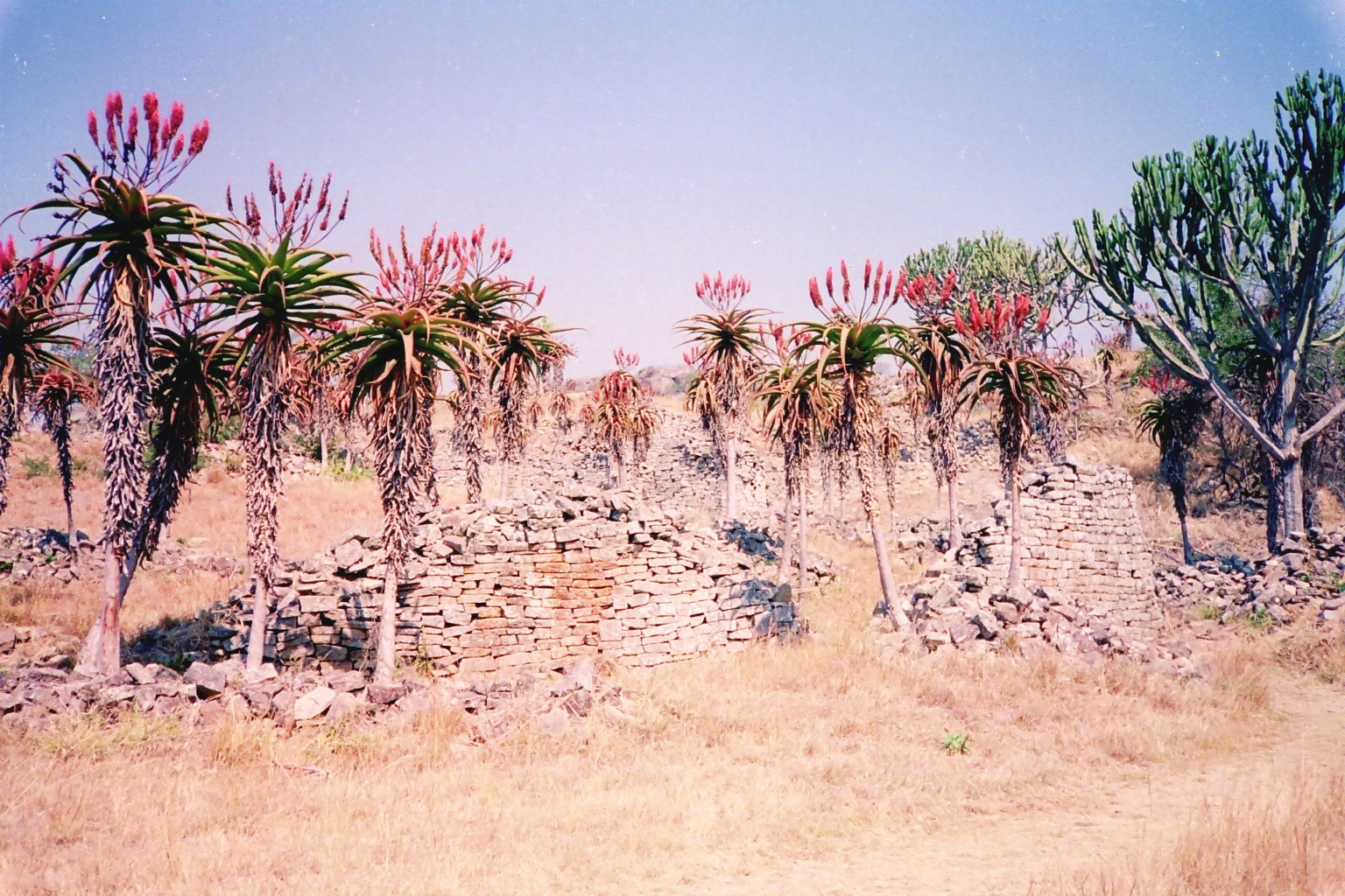 Aloes in the Vallley Complex, Great Zimbabwe